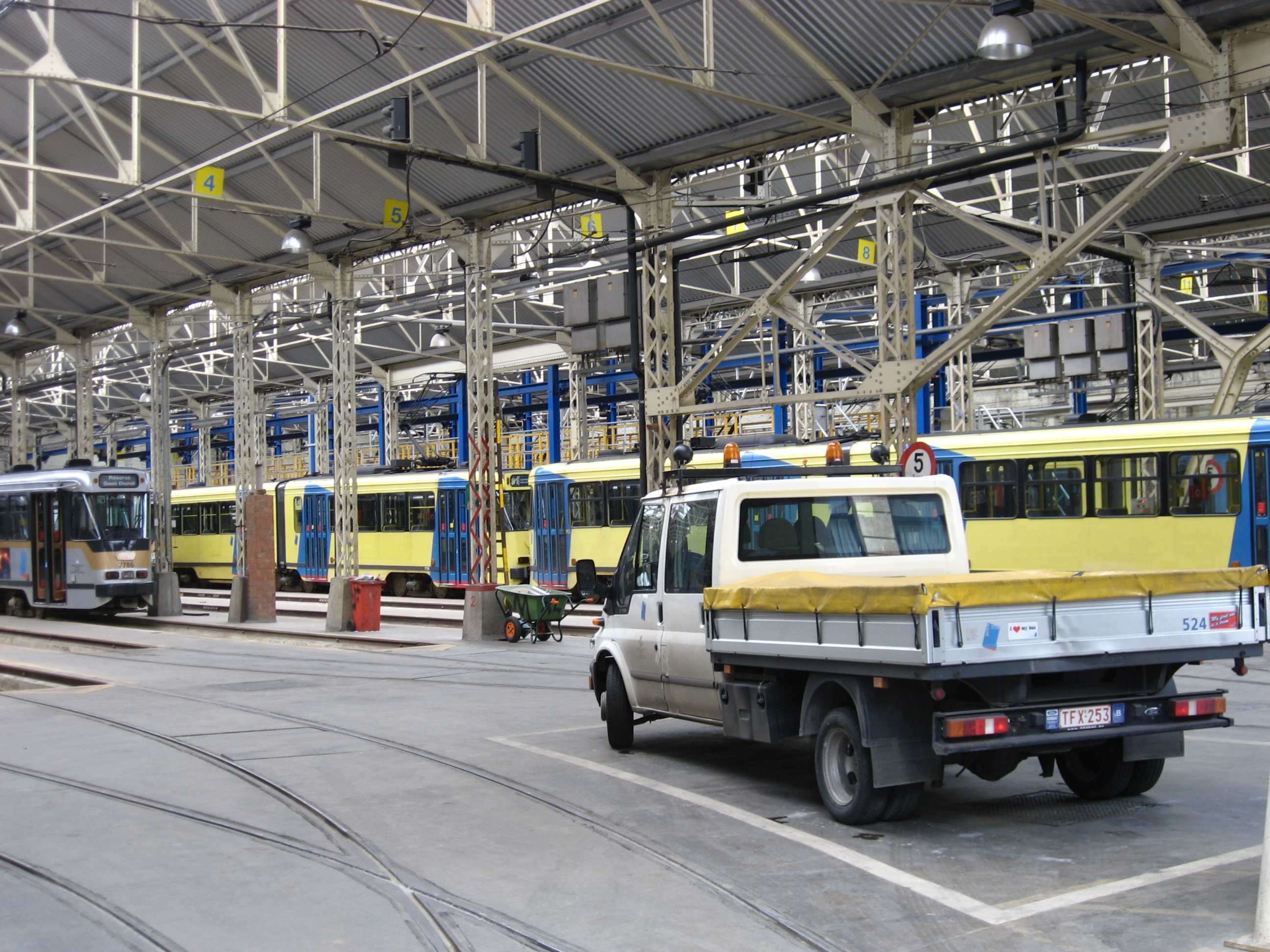 Tramdepot Molenbeek in Brussels